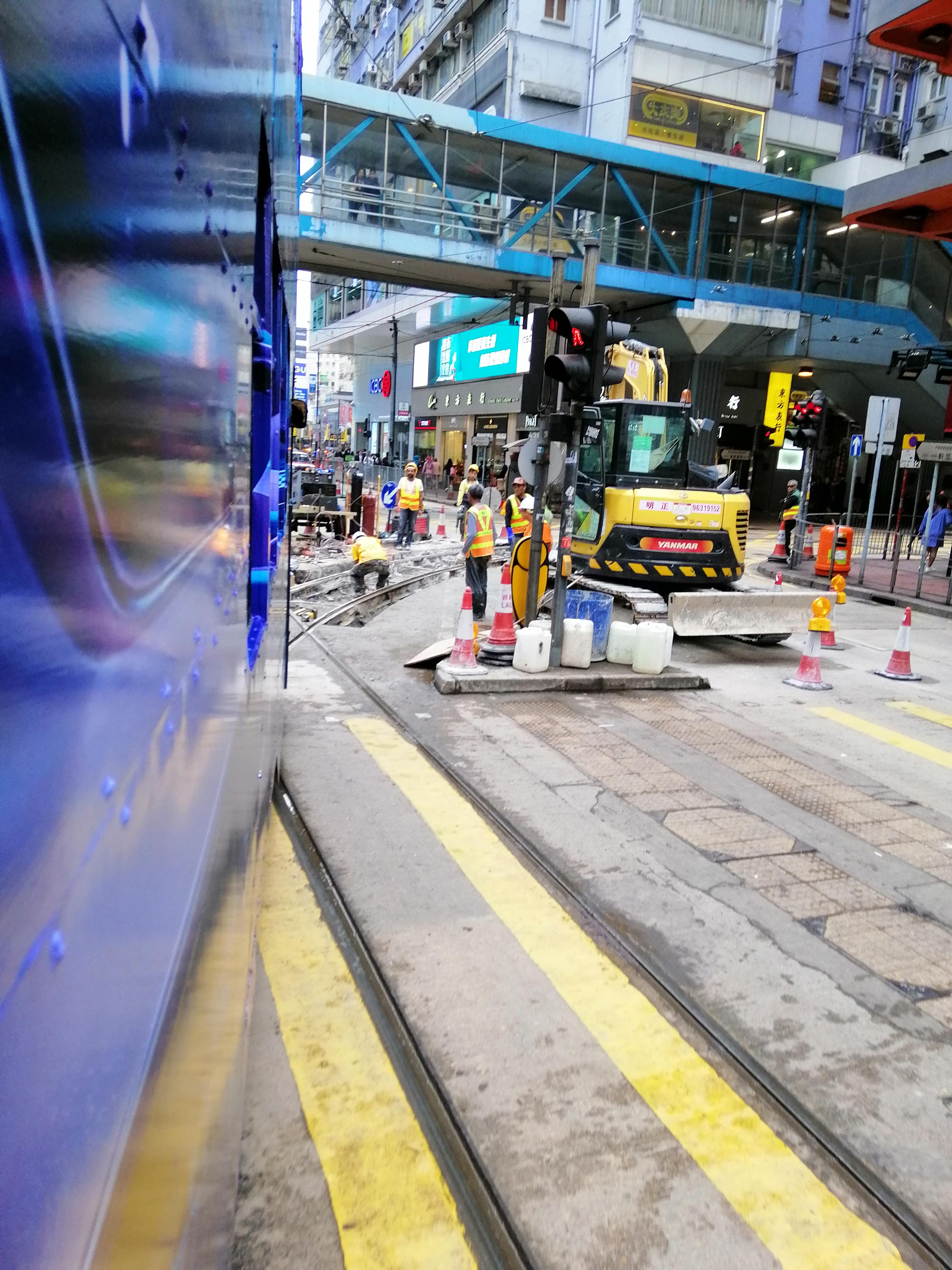 Tram towards Happy Valley Branch